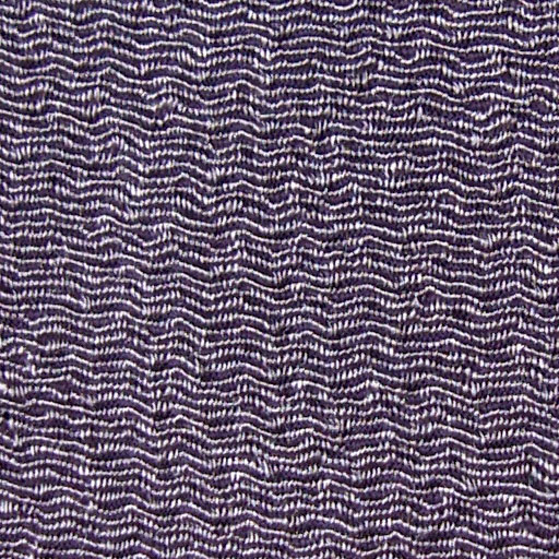 Surface of chirimen (Japanese crepe) which is made of 100% rayon.